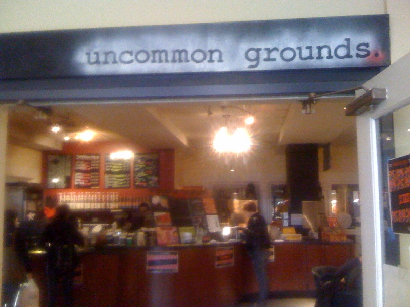 Uncommon Grounds coffee shop in Georgetown University's Leavey Center, connected with the conference center